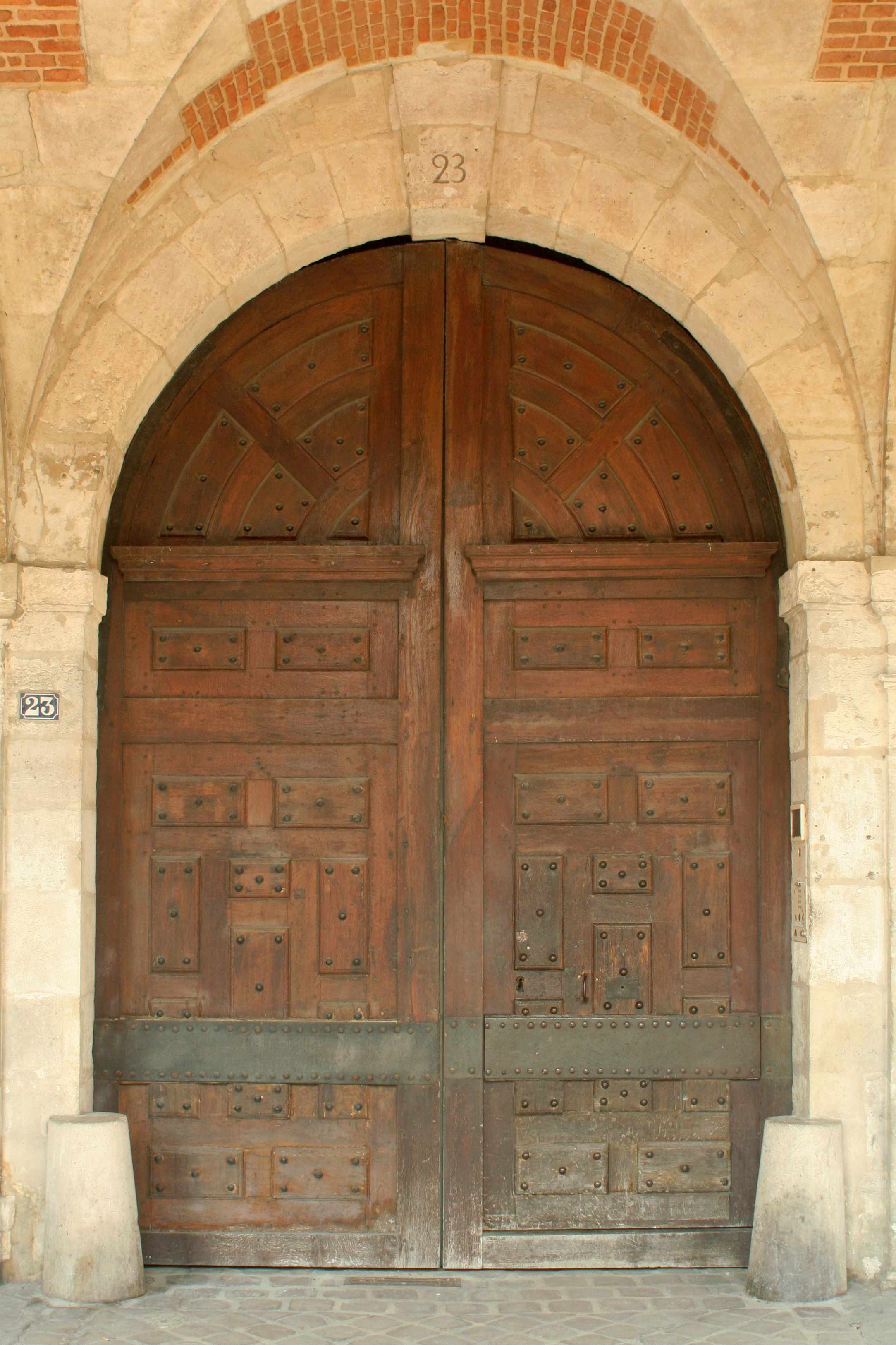 Door of 23 Place des Vosges, Paris.